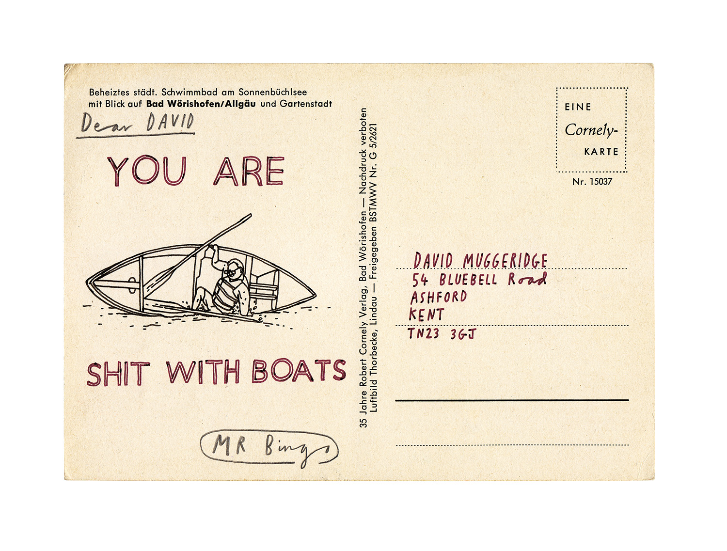 An example of Mr Bingo's Hate Mail work